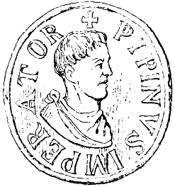 The seal of Pippin the Younger